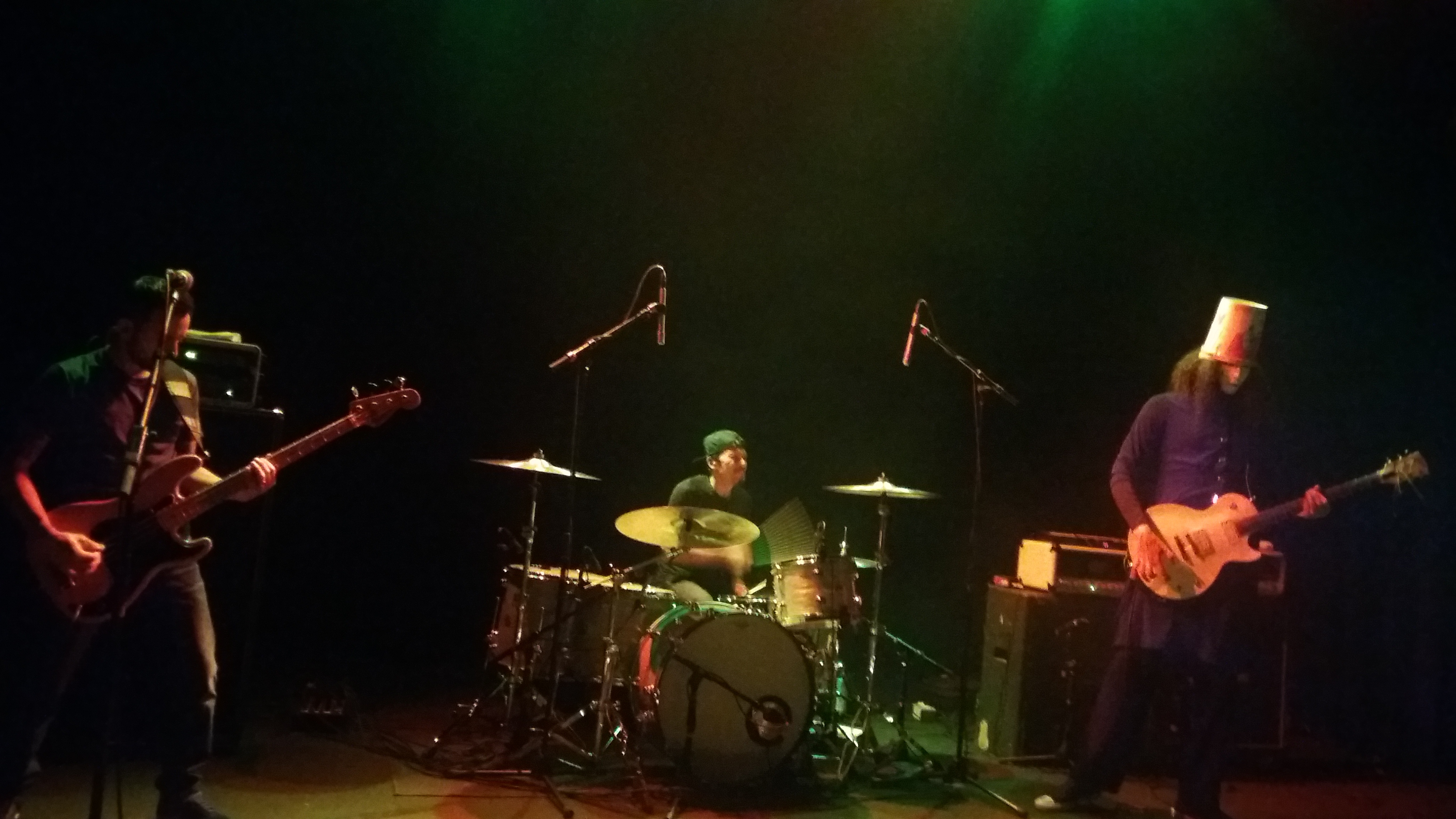 Buckethead concert 9/223/17